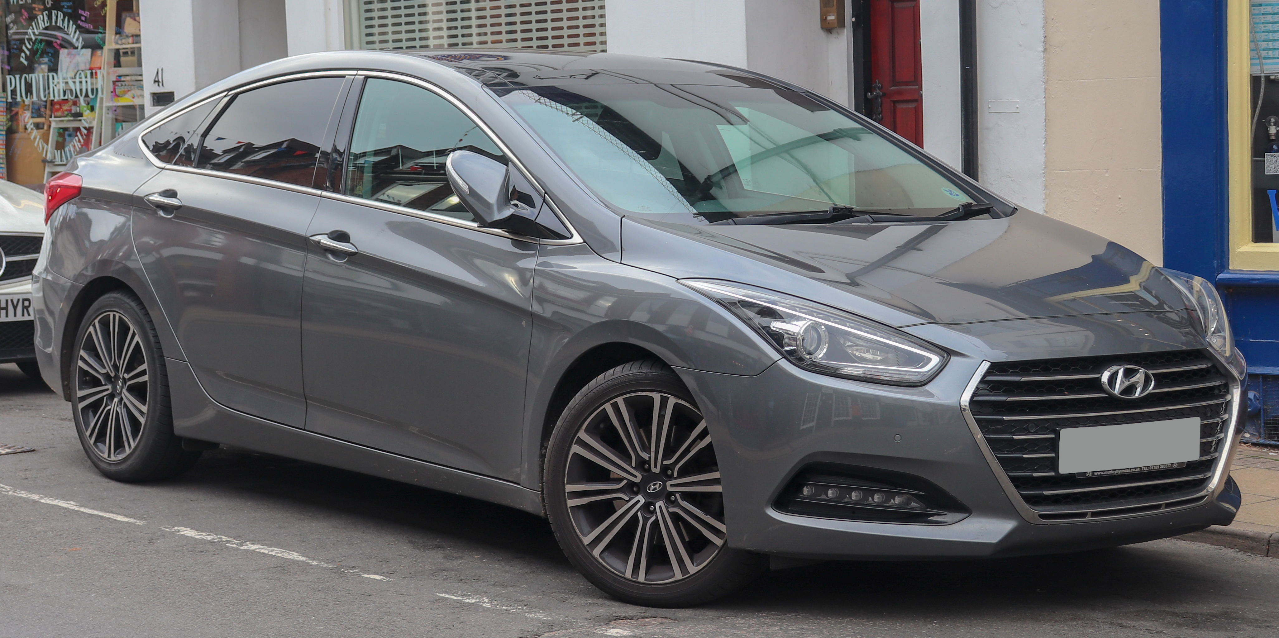 2015 Hyundai i40 Premium CRDi Blue Drive 1.7 Front Taken in Warwick